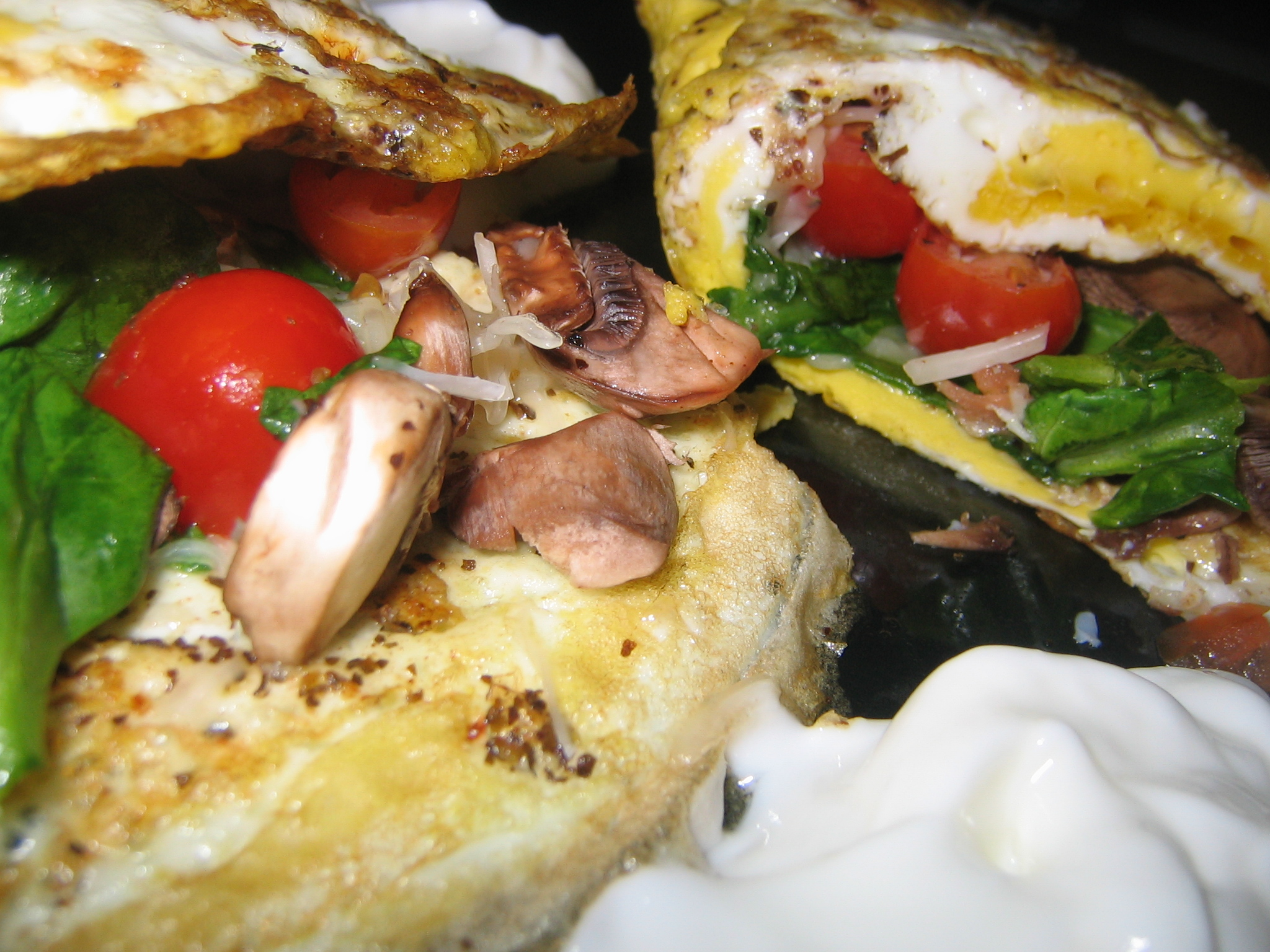 Picture of a fold-over omelette containing spinach, cherry tomatoes, mushrooms, parmesan cheese, and using a pesto base.